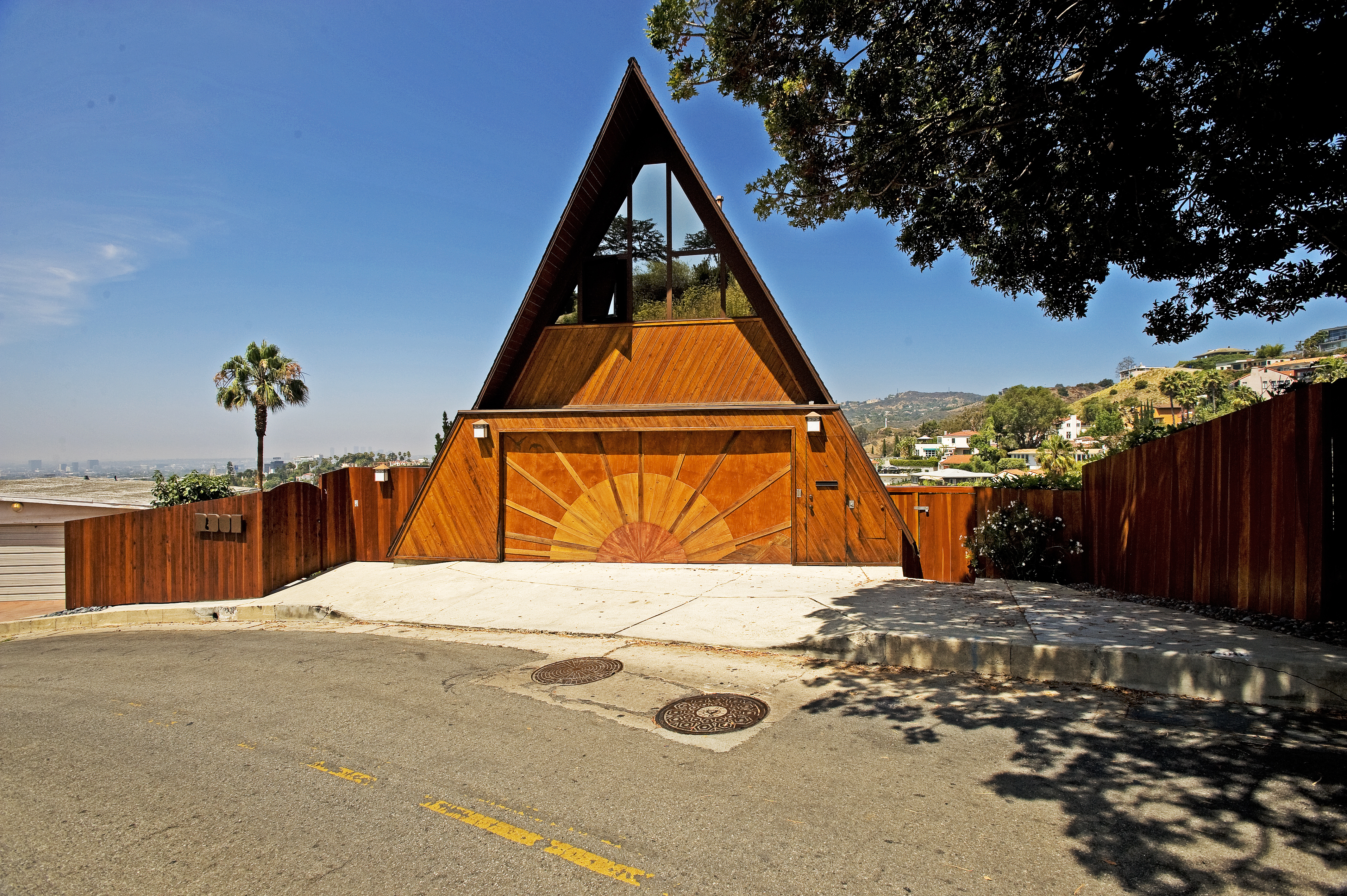 This is an A Frame house restored by Nicky Panicci in the Hollywood Hills. Mr. Panicci bought the unlisted house in 2009 and spent one year restoring it to its masterful splendor which can be seen here: This is a great example of an architectural A Frame home.